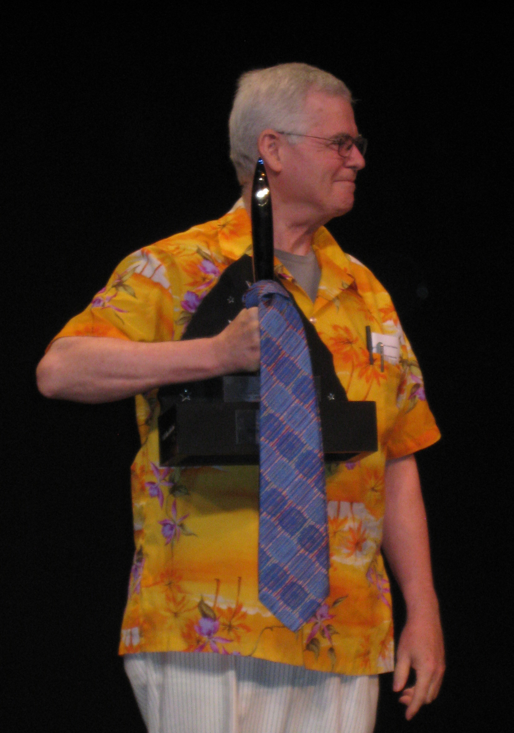 With Hugo and inevitable prop